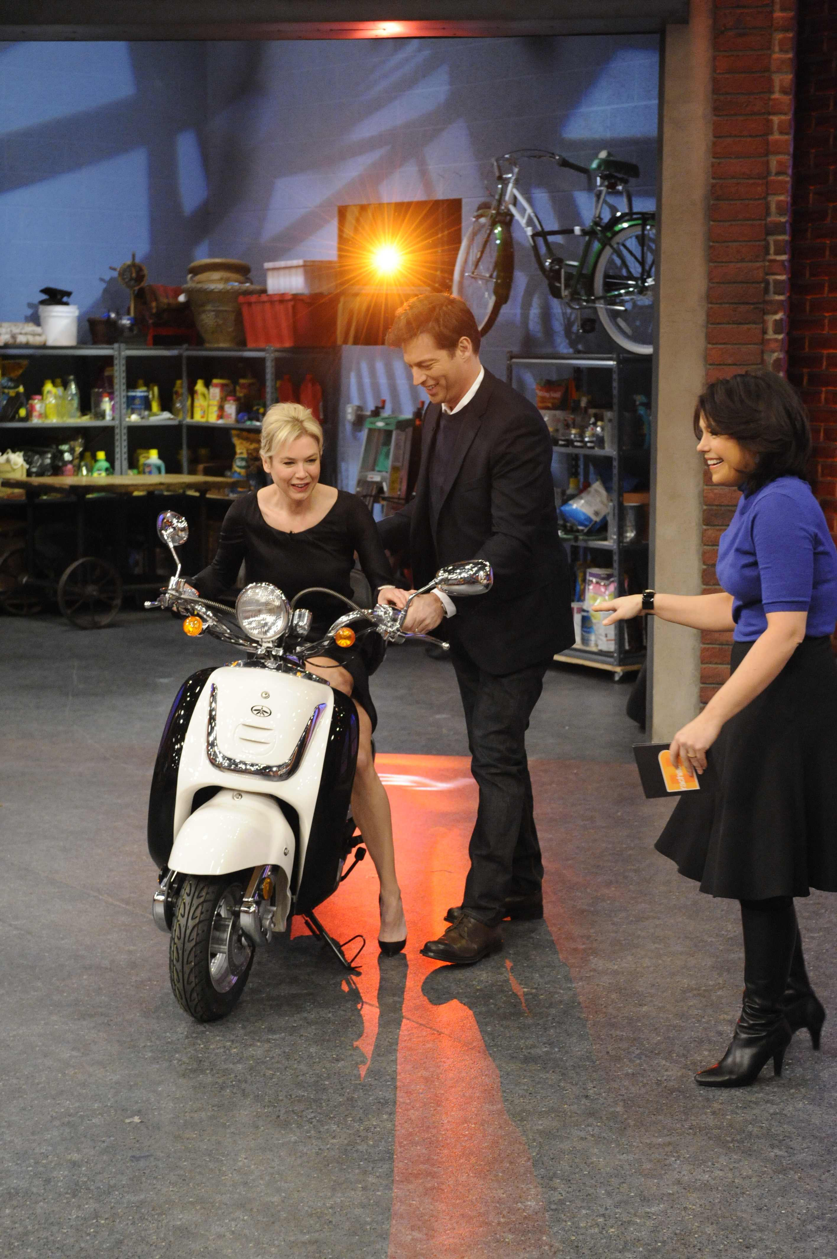 Photo taken at Rachel Ray show where Renée Zellweger and Harry Connick Jr. rode the Flyscooters Il Bello on stage.